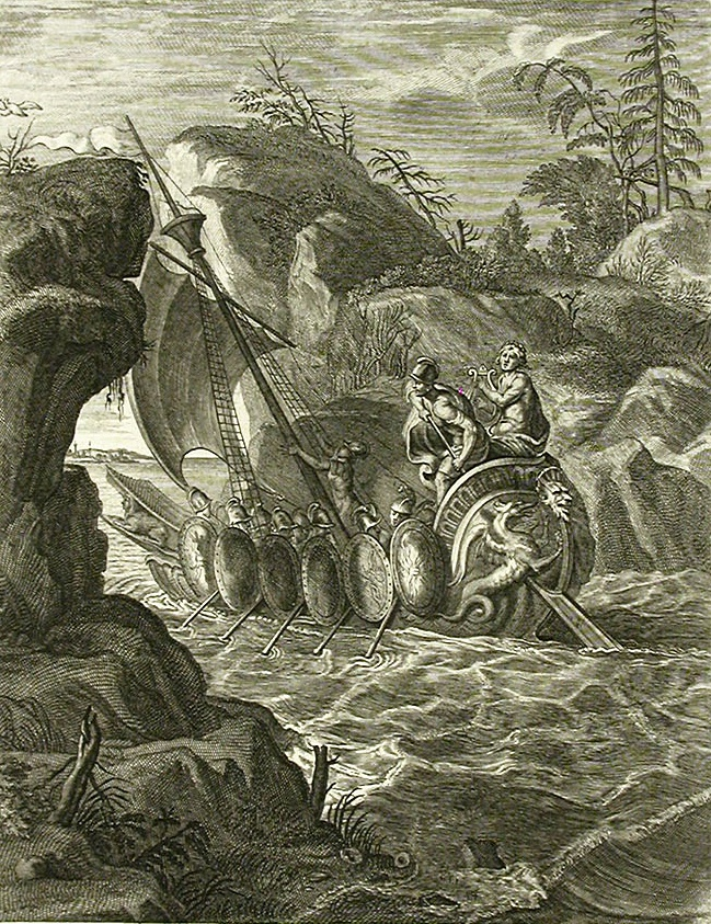 Bernard Picart, The Argonauts Pass the Symplegades (1733)